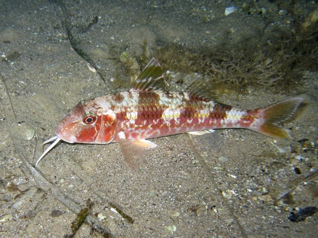 Mullus surmuletus photographed in Sardinia, Italy.